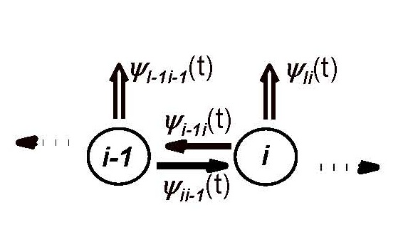 A picture of a random walk system